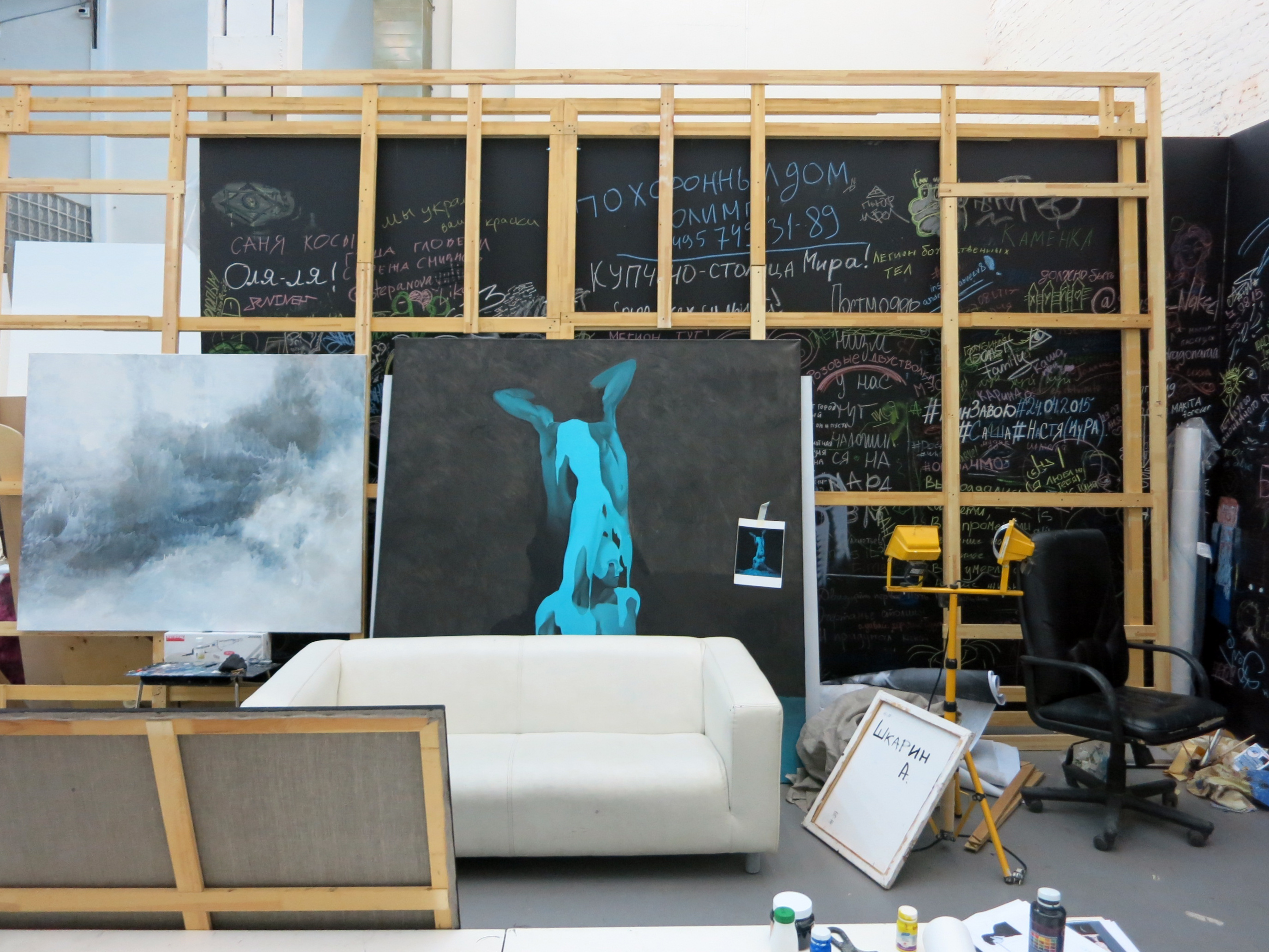 At Aidan studio, Winzavod, Moscow, February 13, 2016.